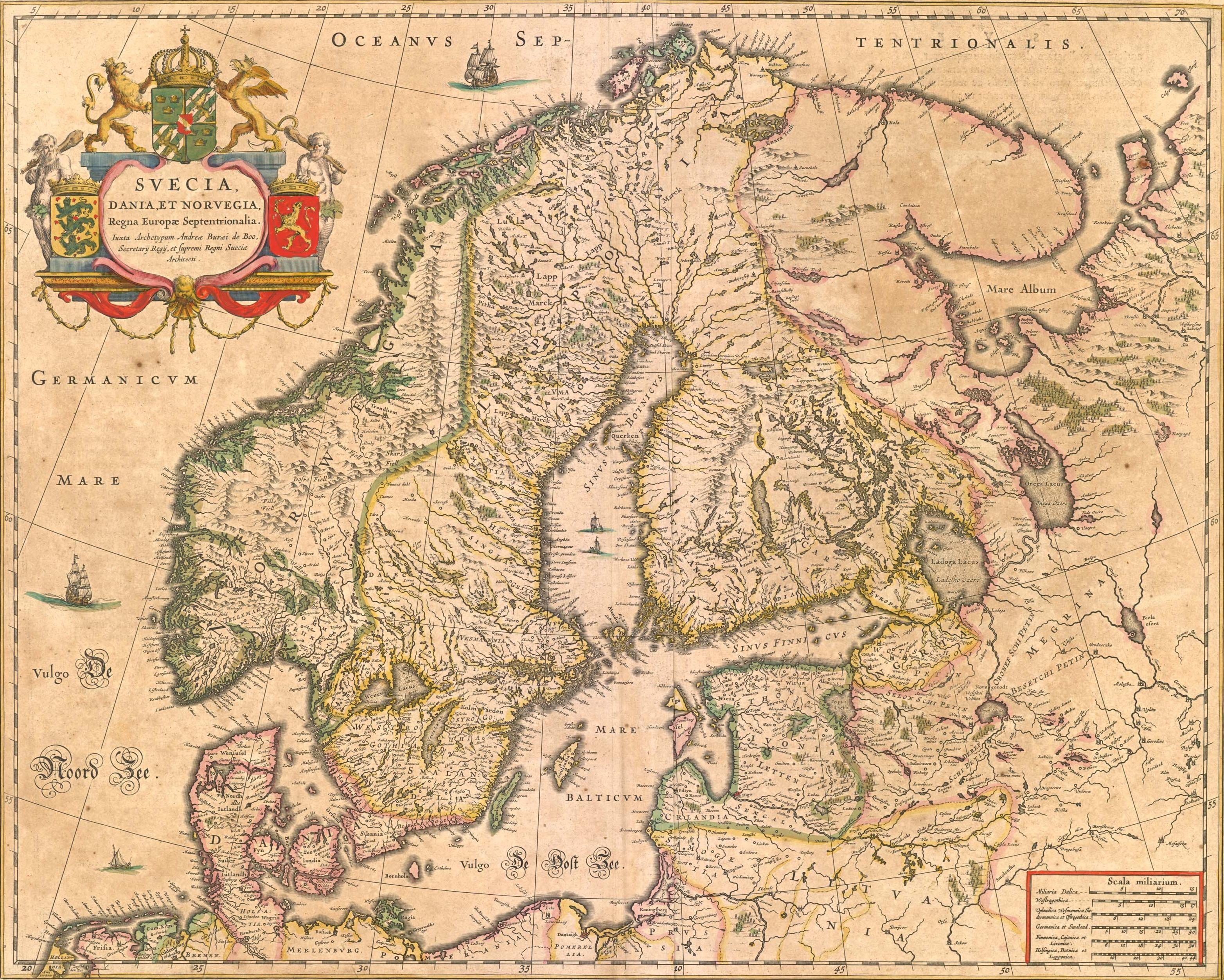 ==Suecia Dania et Norvegia regna Europæ septentrionolia (Sweden, Denmark and Norway kingdoms of northern Europe)from"Theatrum Orbis Terrarum, sive Atlas Novus in quo Tabulæ et Descriptiones Omnium Regionum, Editæ a Guiljel et Ioanne Blaeu"(Theater of the World, or a New Atlas of Maps and Representations of All Regions, Edited by Willem and Joan Blaeu), 1645.